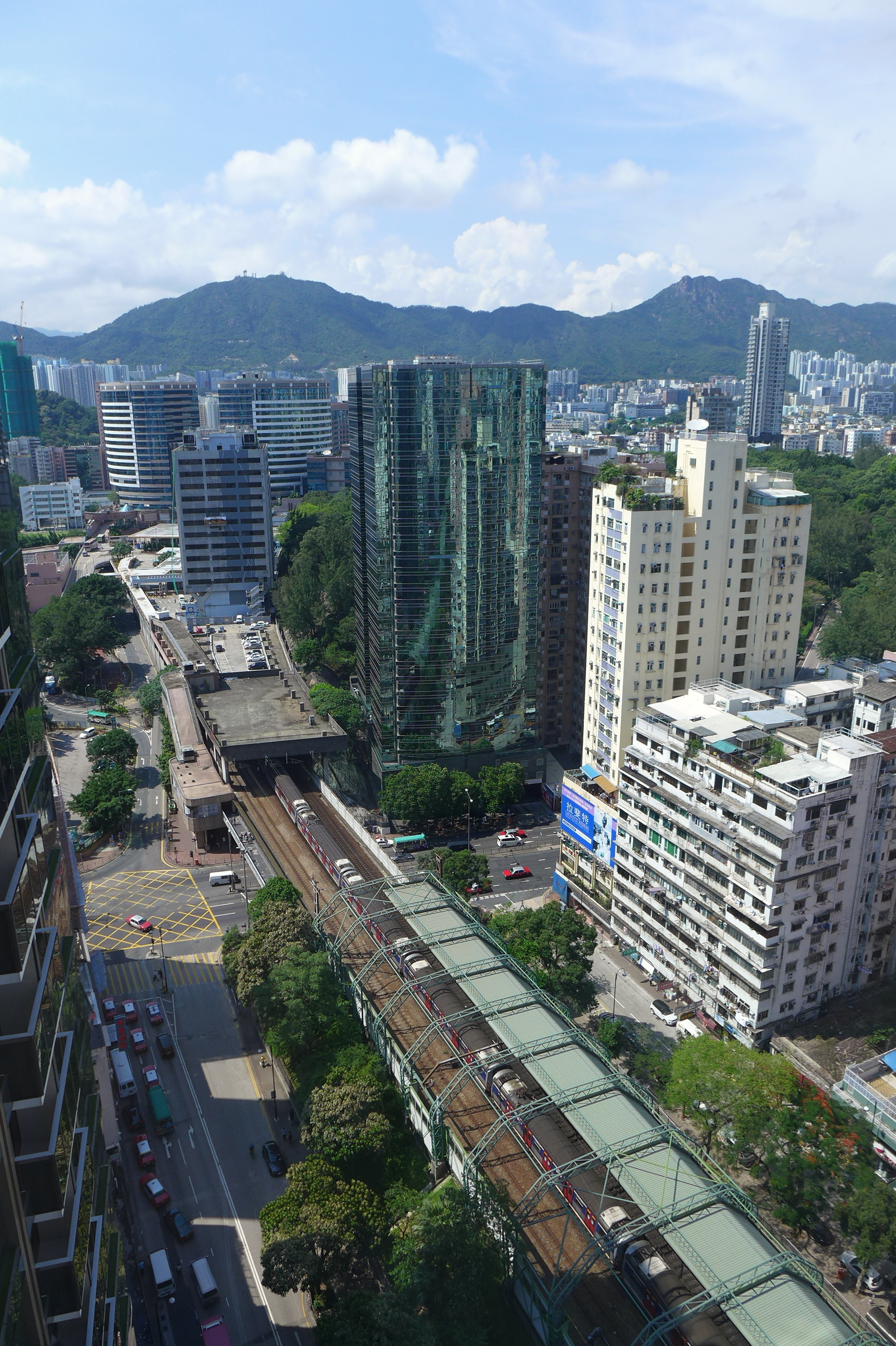 East Rail Line Mong Kok East Section Track